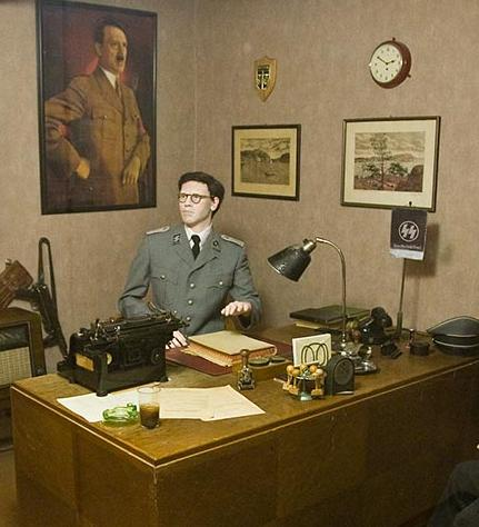 Photo from Skrekkens hus in Kristiansand